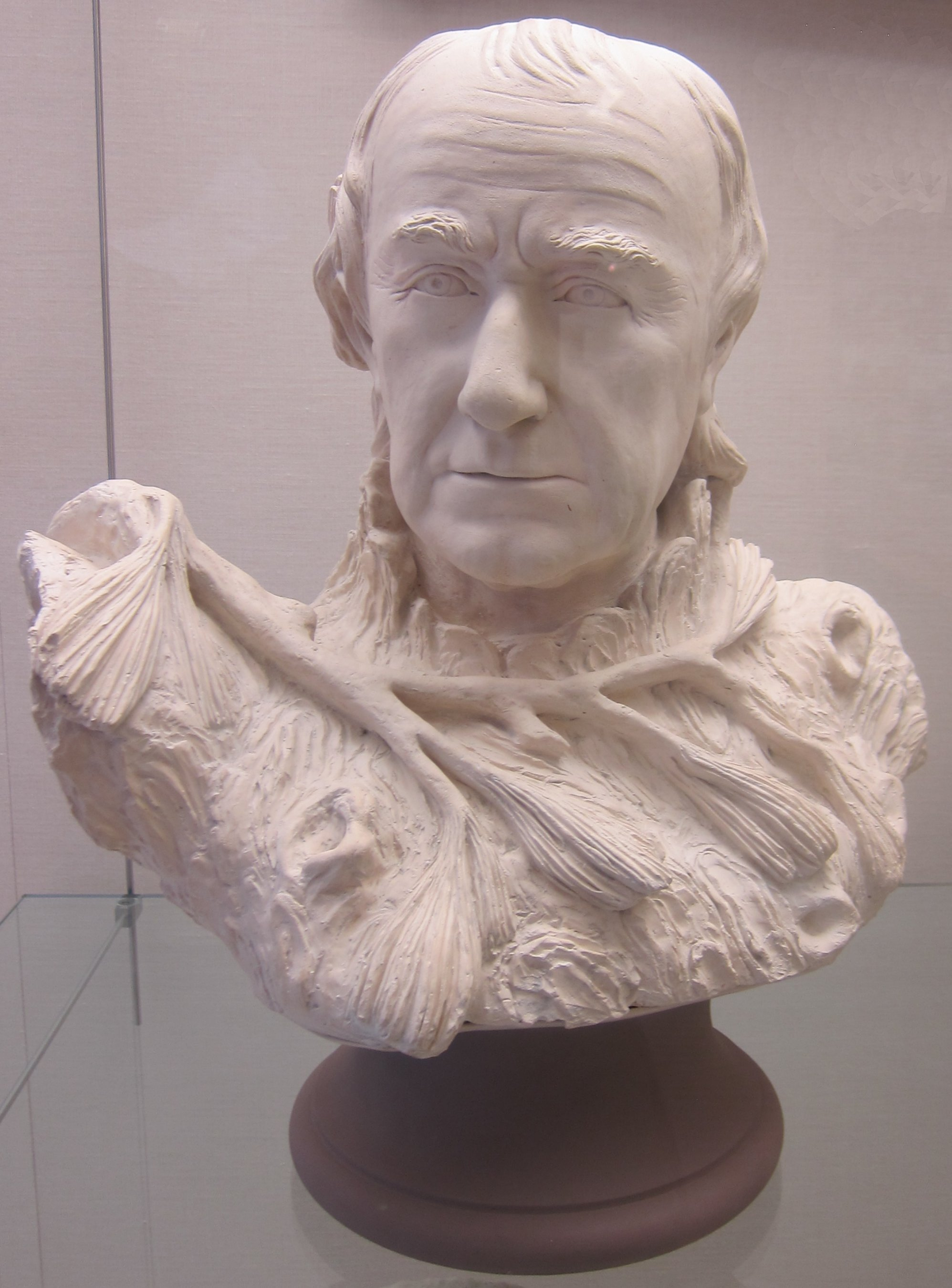 Self-portrait, terracotta sculpture by William Rush, 1822, Pennsylvania Academy of the Fine Arts